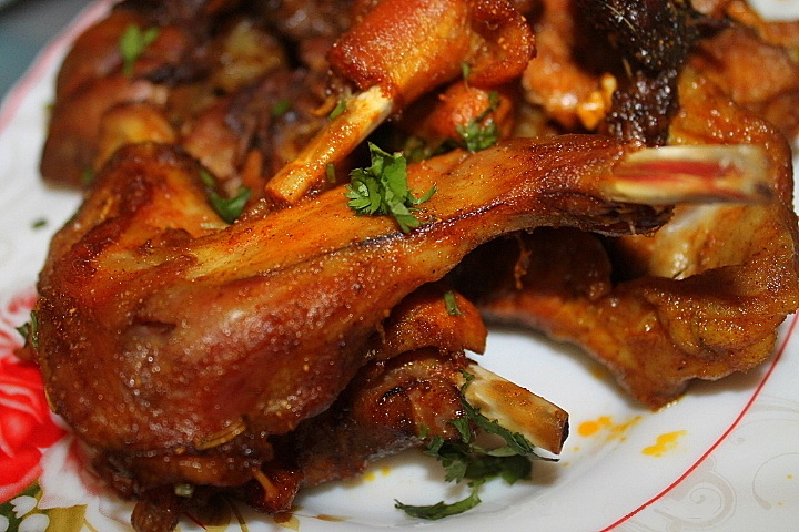 This is an image of food from Algeria